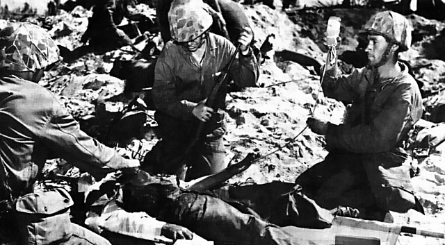 Operation Catchpole.